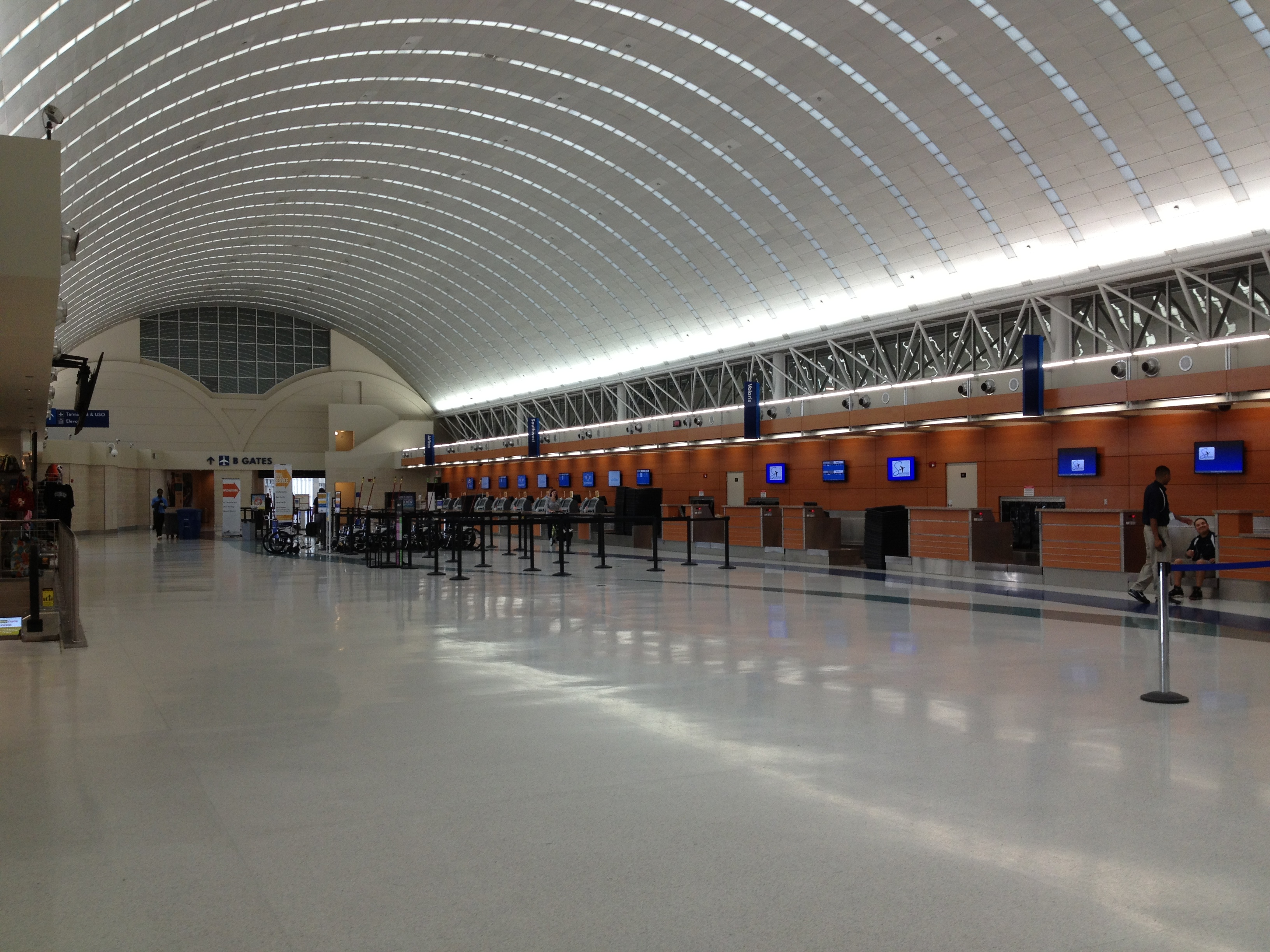 San Antonio International Airport Ticket Counters September 2014